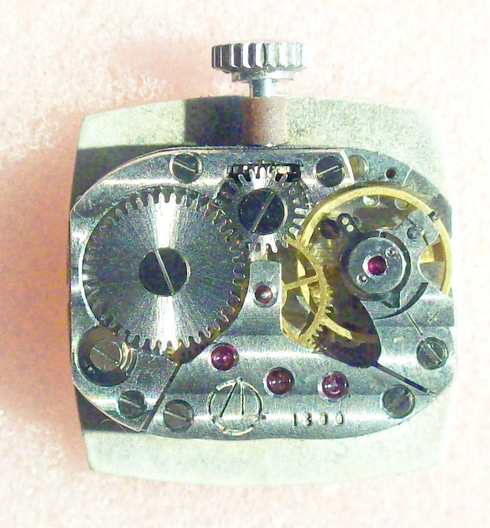 watch movement „Луч“ made in USSR (Sovjet Union)